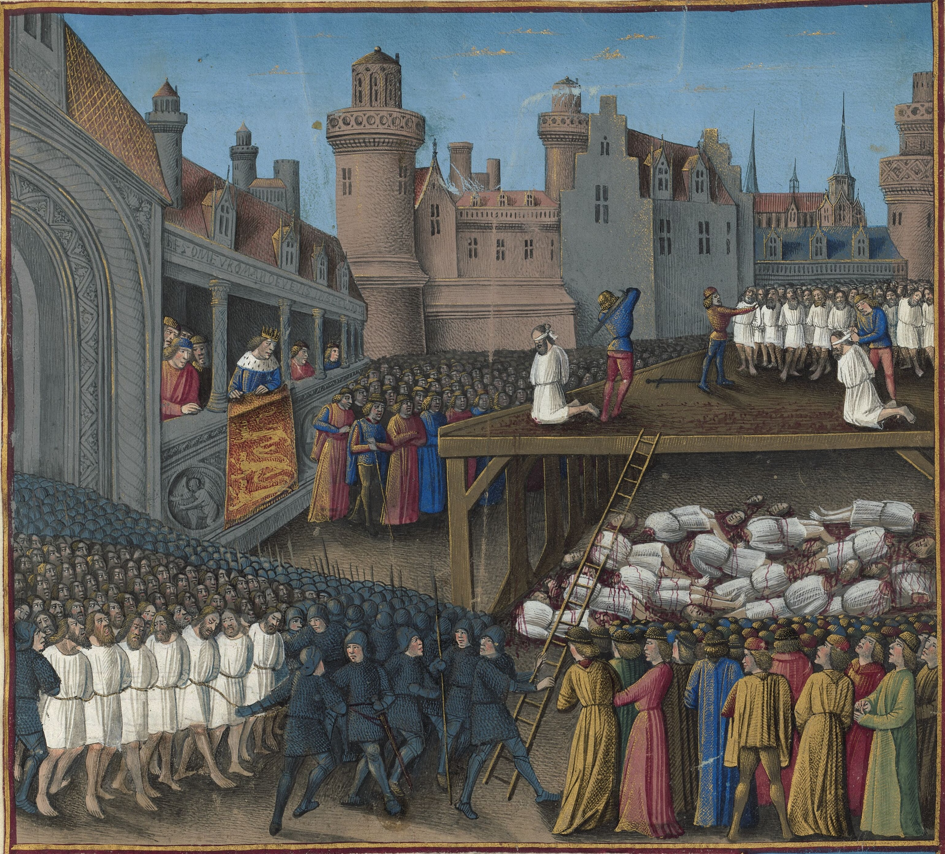 Miniature: Richard II supervises massacre of Muslim prisoners